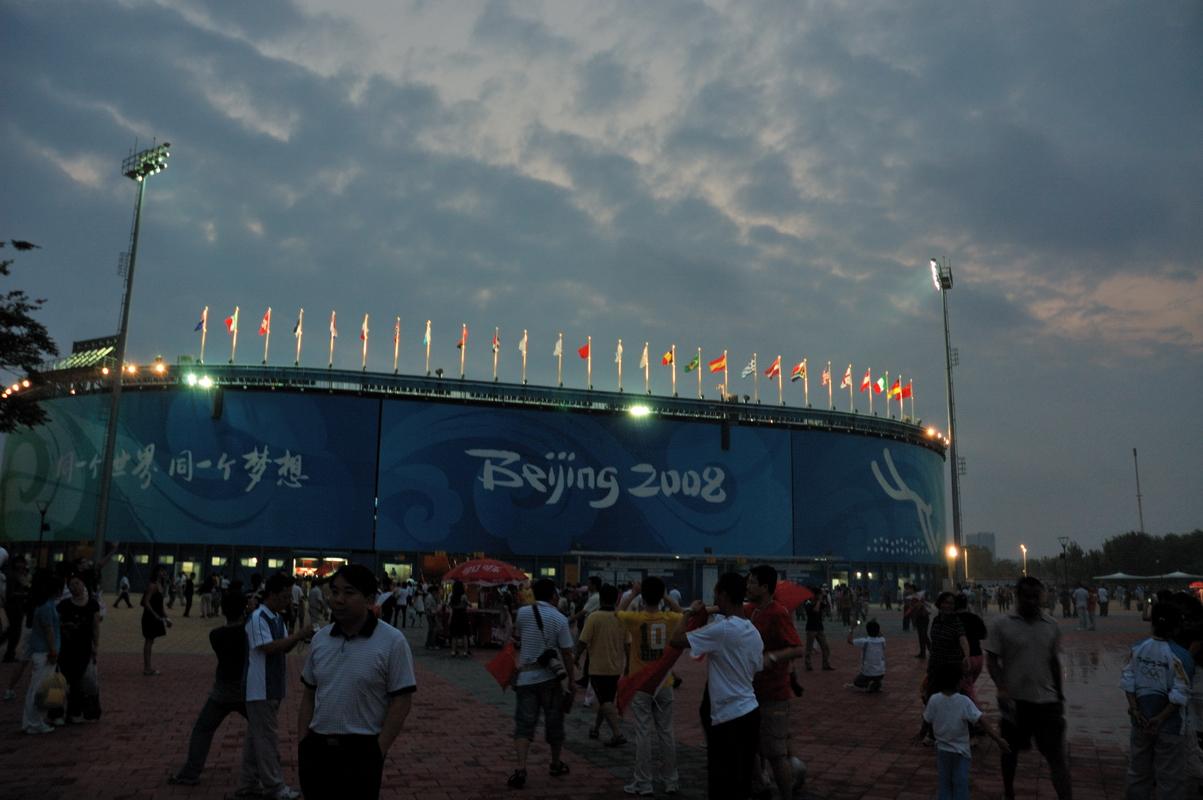 Chaoyangpark beach volleyball Ground.